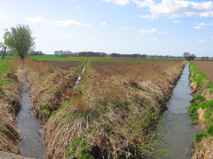 Troja river